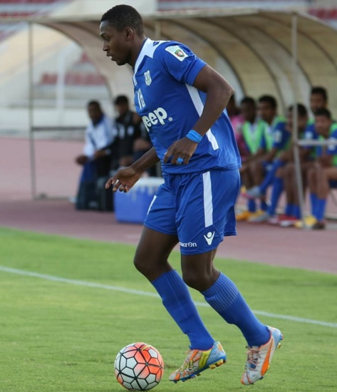 Mechac Koffi in action in a match for Al Nasr Club of Oman in 2015-16 season. 4 February 2016 Auqad Sports Complex, Auqad, Salalah, Oman Photographer email id